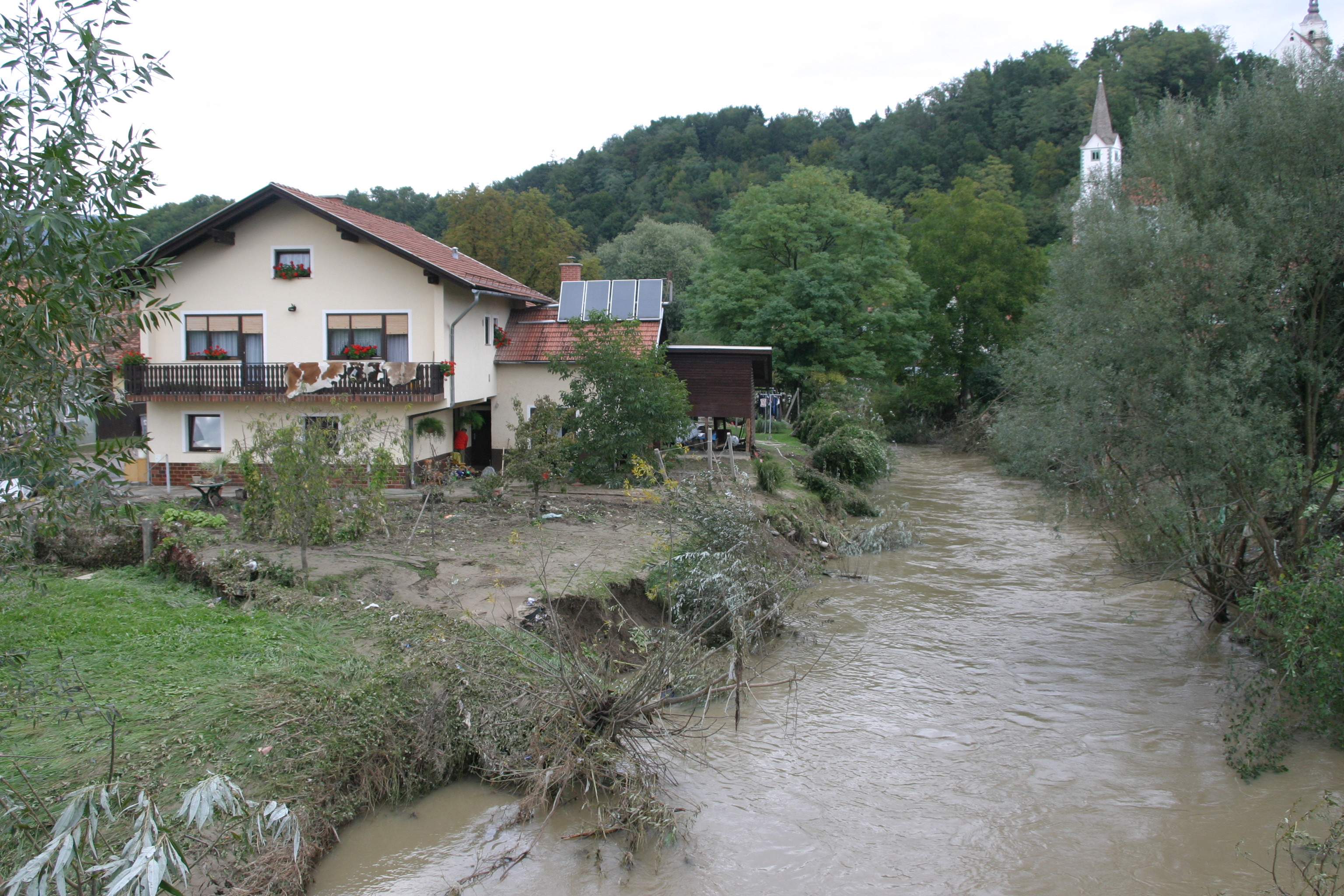 Hudinja river in the town of Vojnik after floods of September 2007